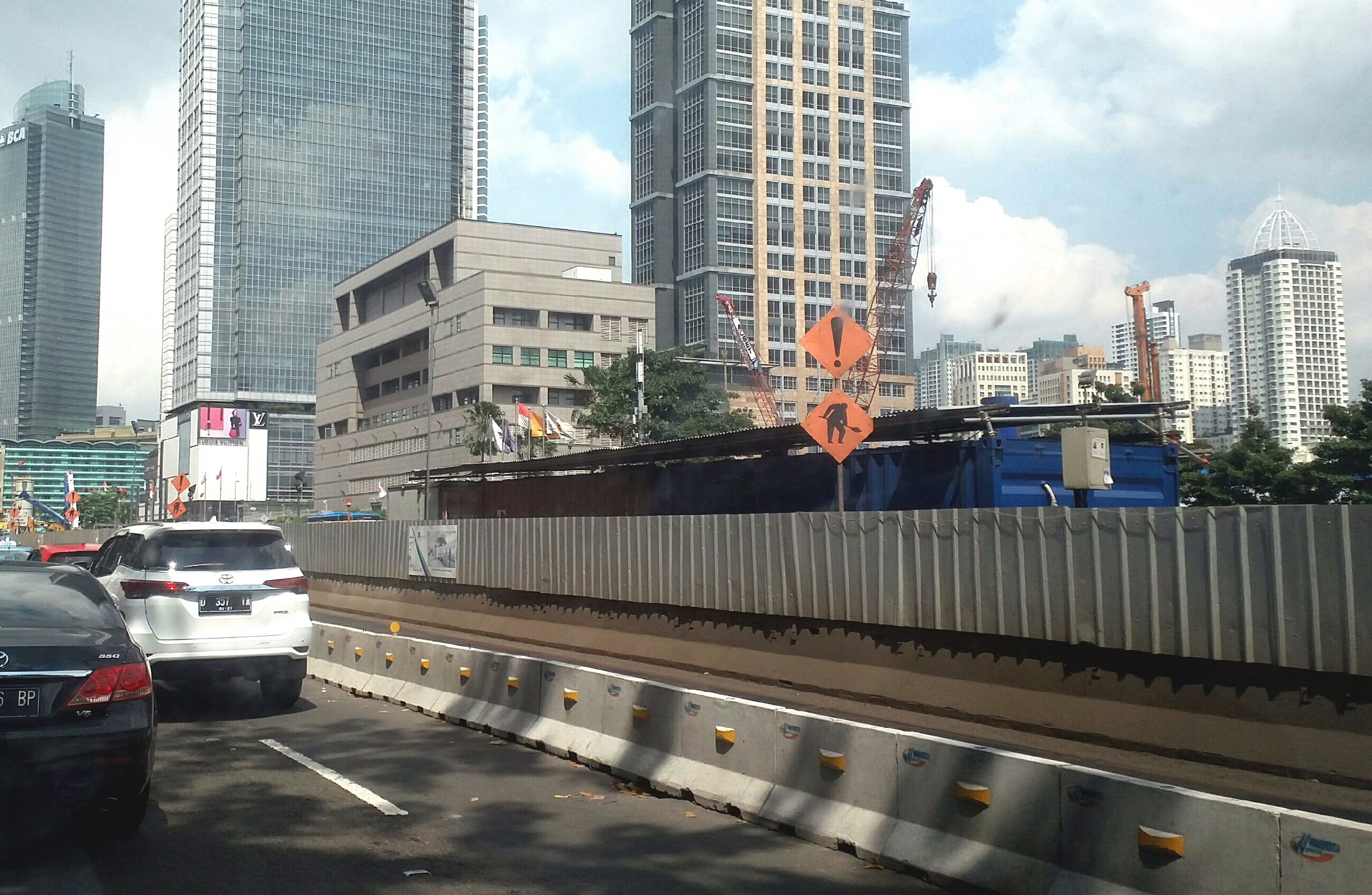 Jakarta MRT underconstruction in MH Thamrin Street.